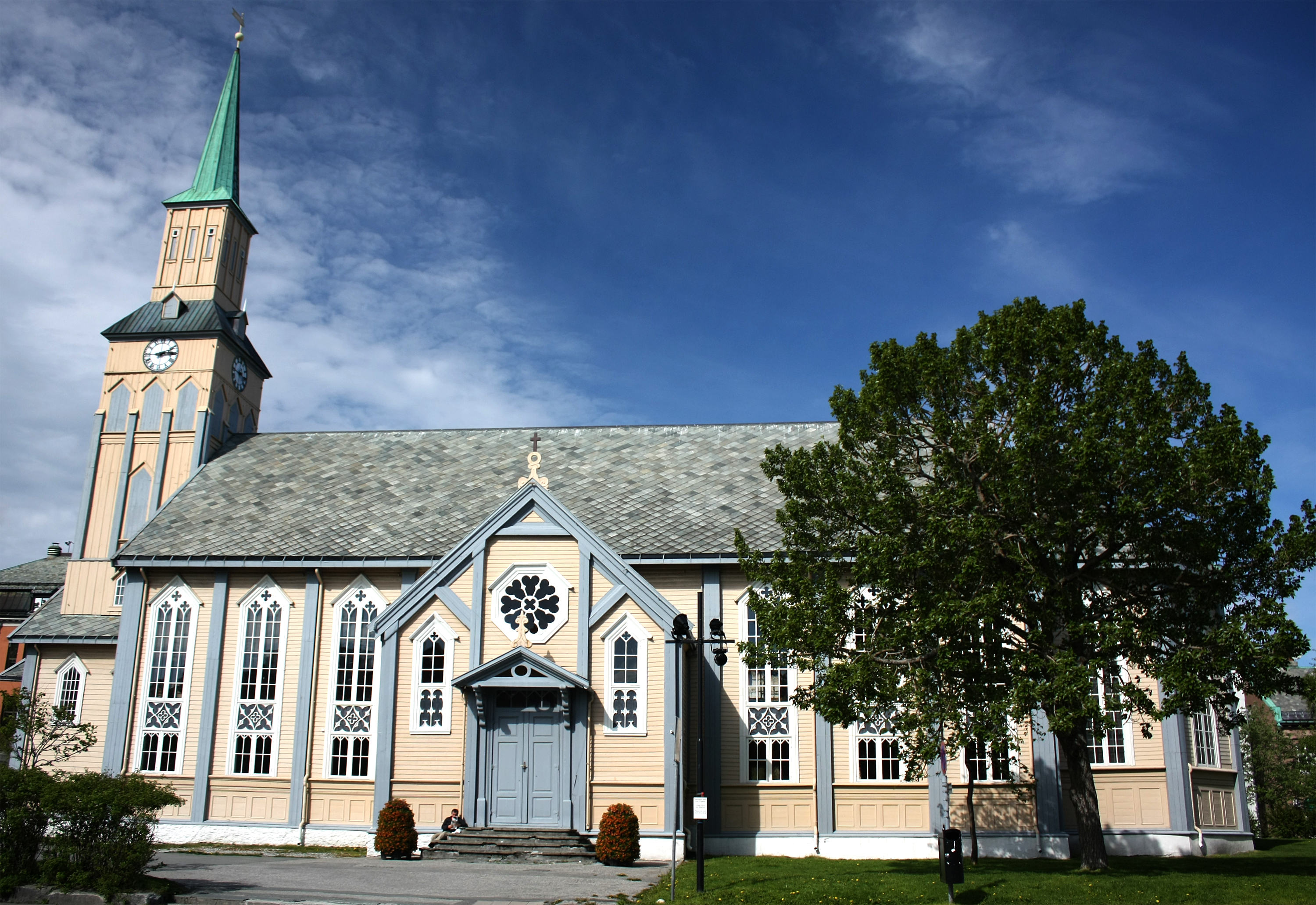 Tromso Cathedral